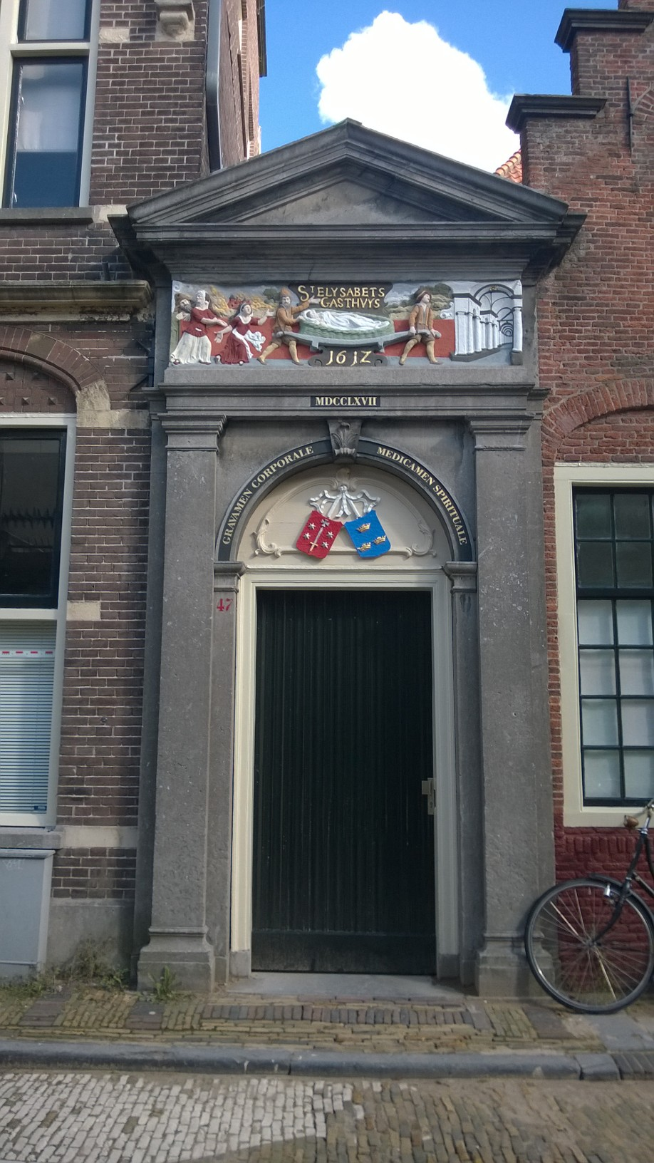 Newly painted 1767 doorway, including the 1612 gable stone at the top. Across from Frans Hals Museum and part of the old Elisabeth Gasthuis complex.